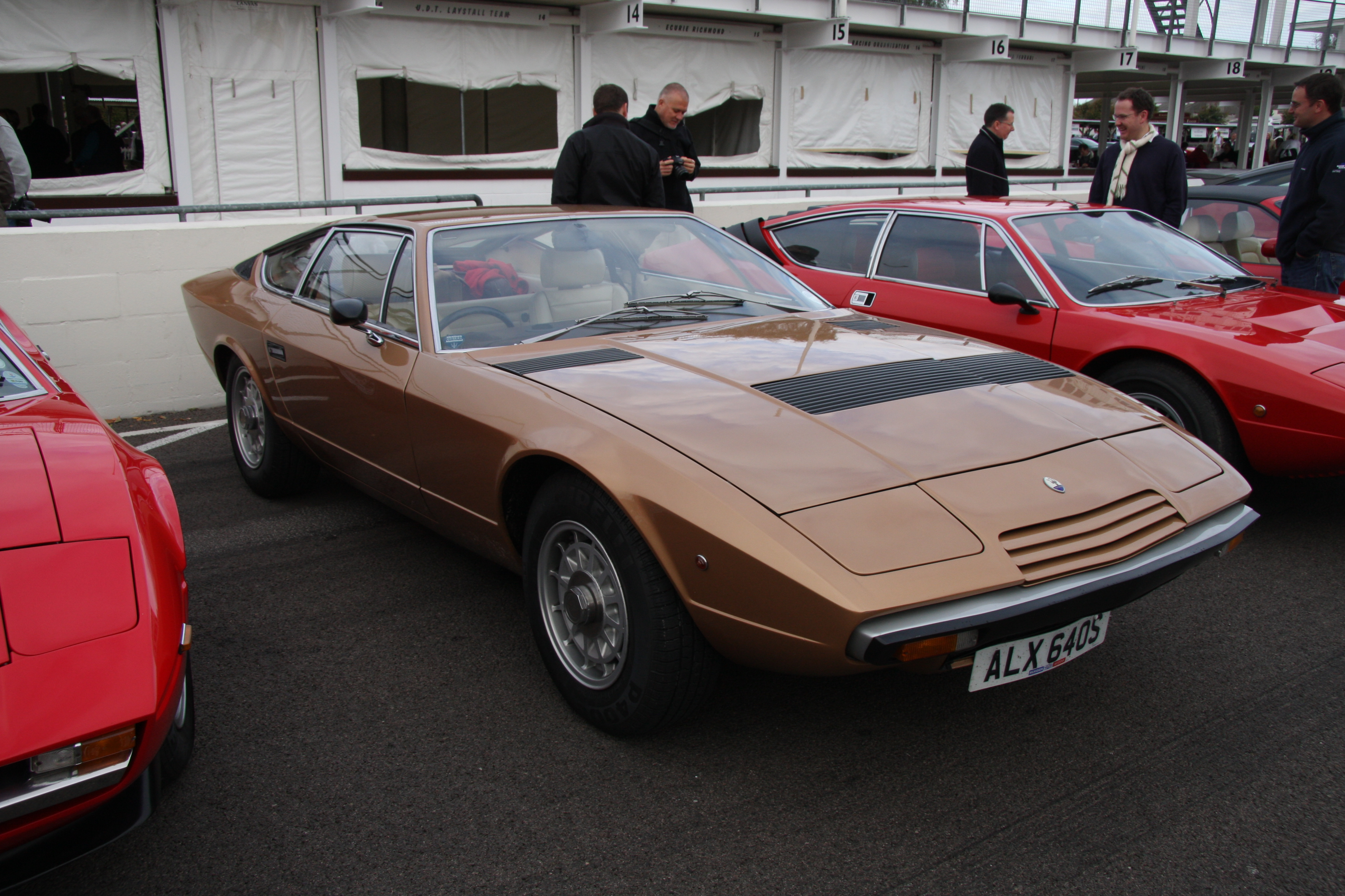 Goodwood Breakfast Club, October 2009